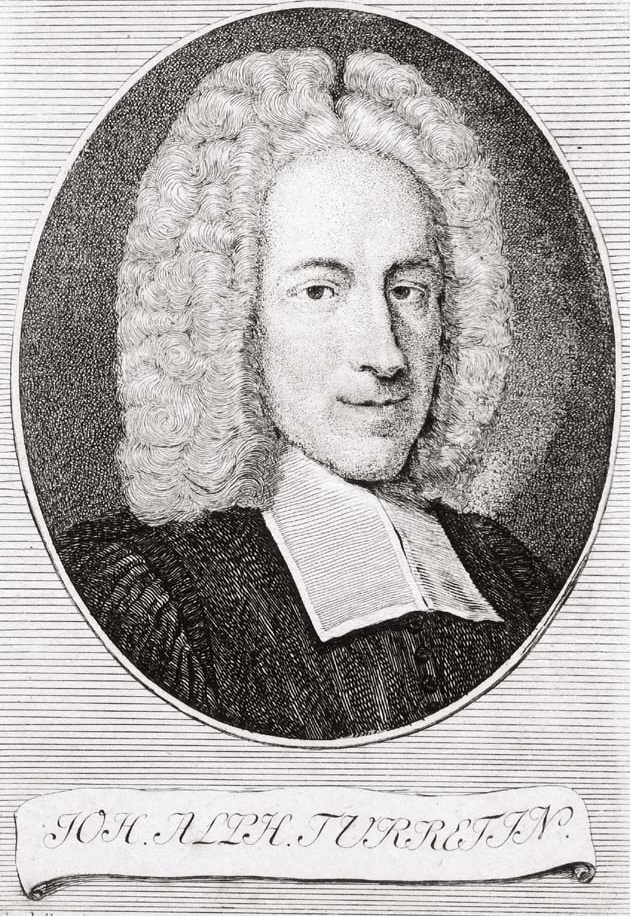 Jean-Alphonse Turrettini